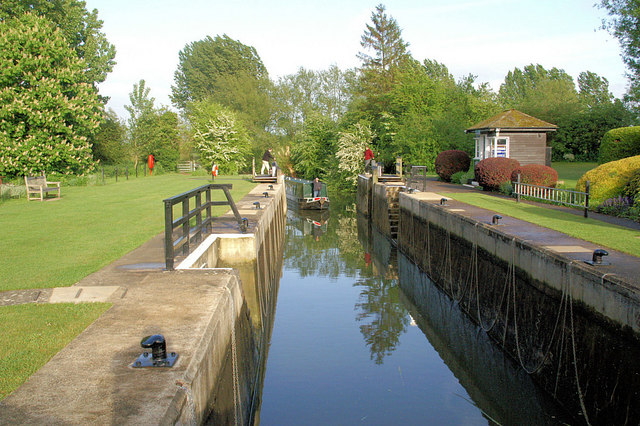 Buscot Lock on the River Thames in Oxfordshire: view downstream as a narrowboat enters the lock to go upstream